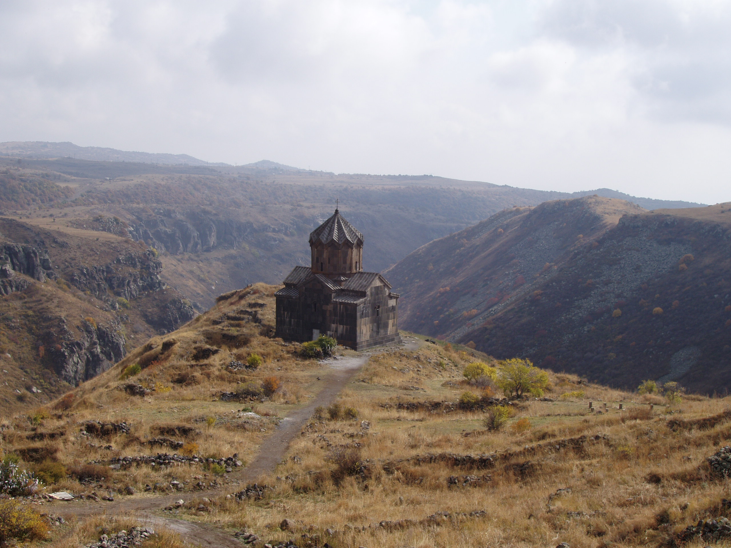 Vahramashen Church, a 10th century Armenian church on the slopes of Mount Aragats, Armenia.